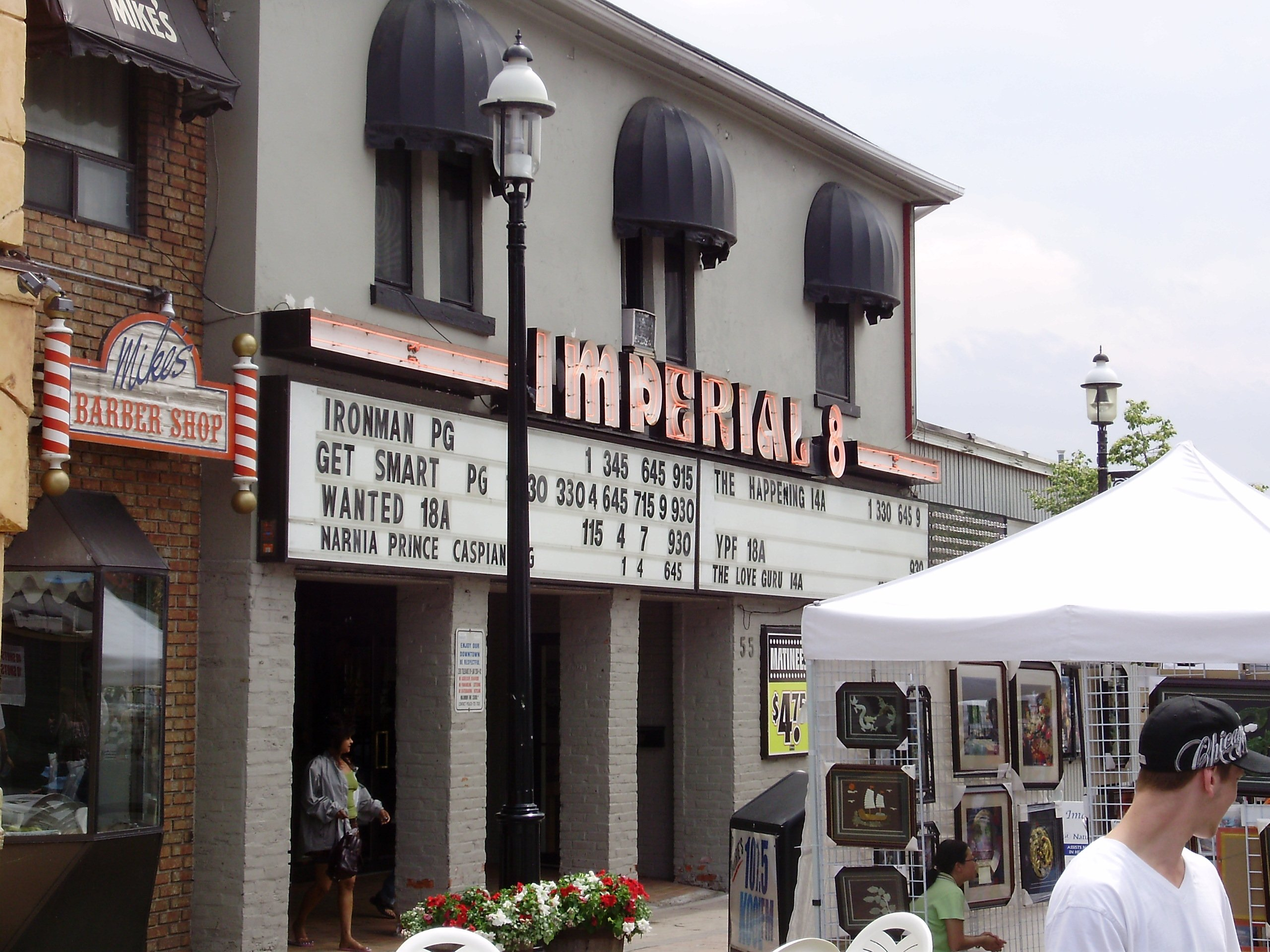 The Imperial 8 Cinemas, owned by Stinson Theatres, on Dunlop Street West in downtown Barrie, Ontario, Canada during the Promenade Days event.